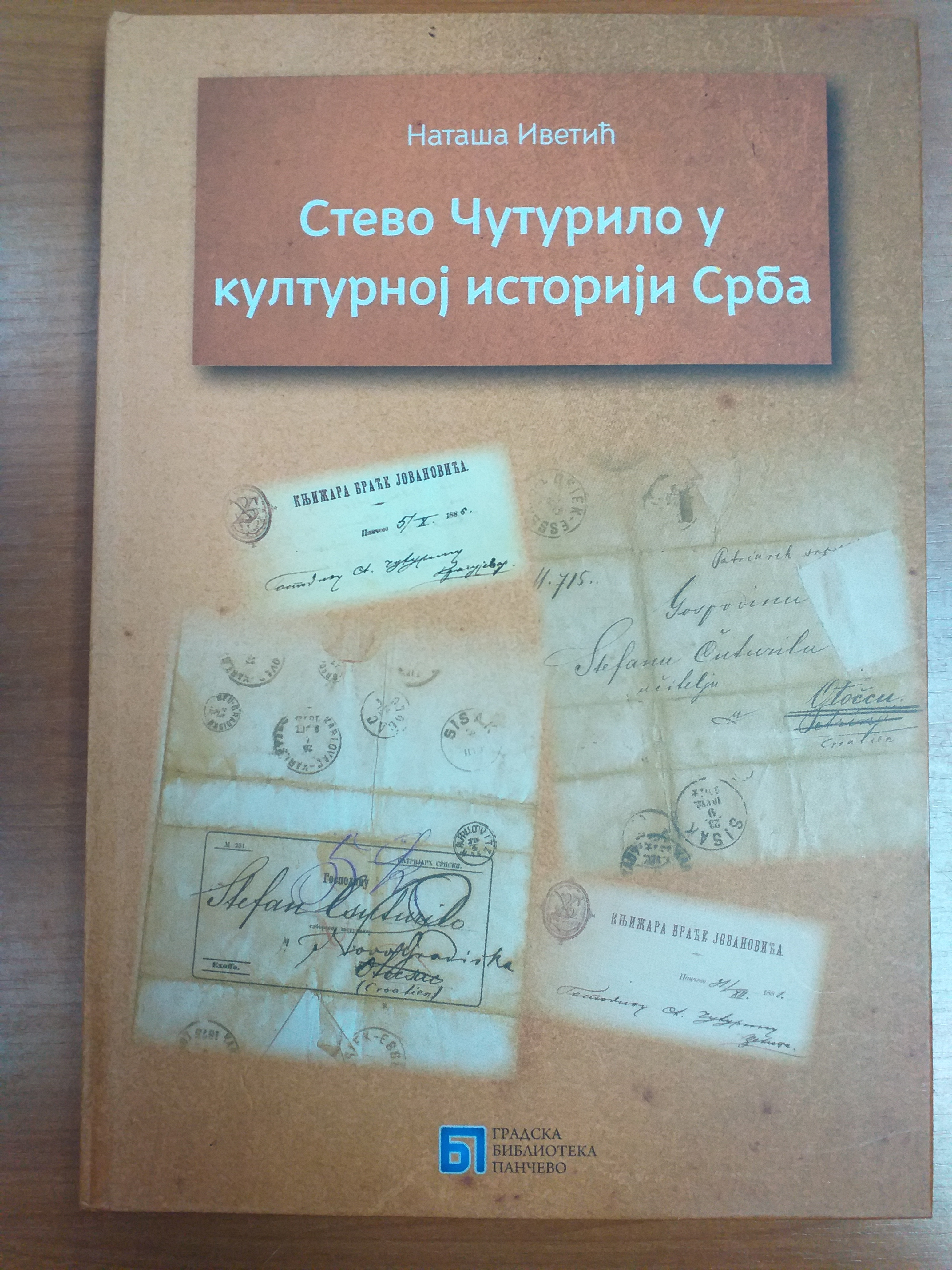 Stevo Čuturilo